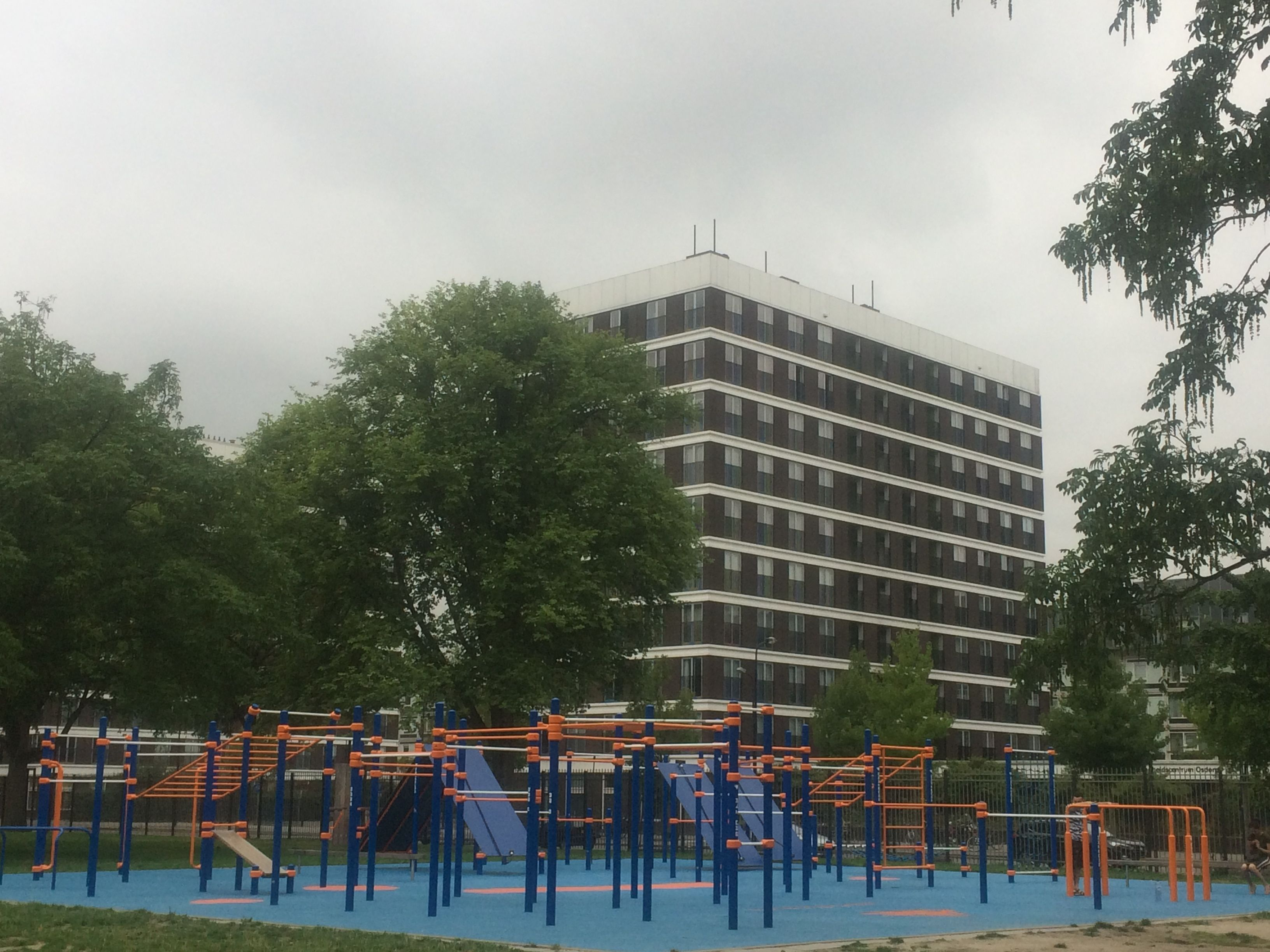 Wolbrantskerkweg 100, Osdorp, Amsterdam, nl where one can practice calisthenics.